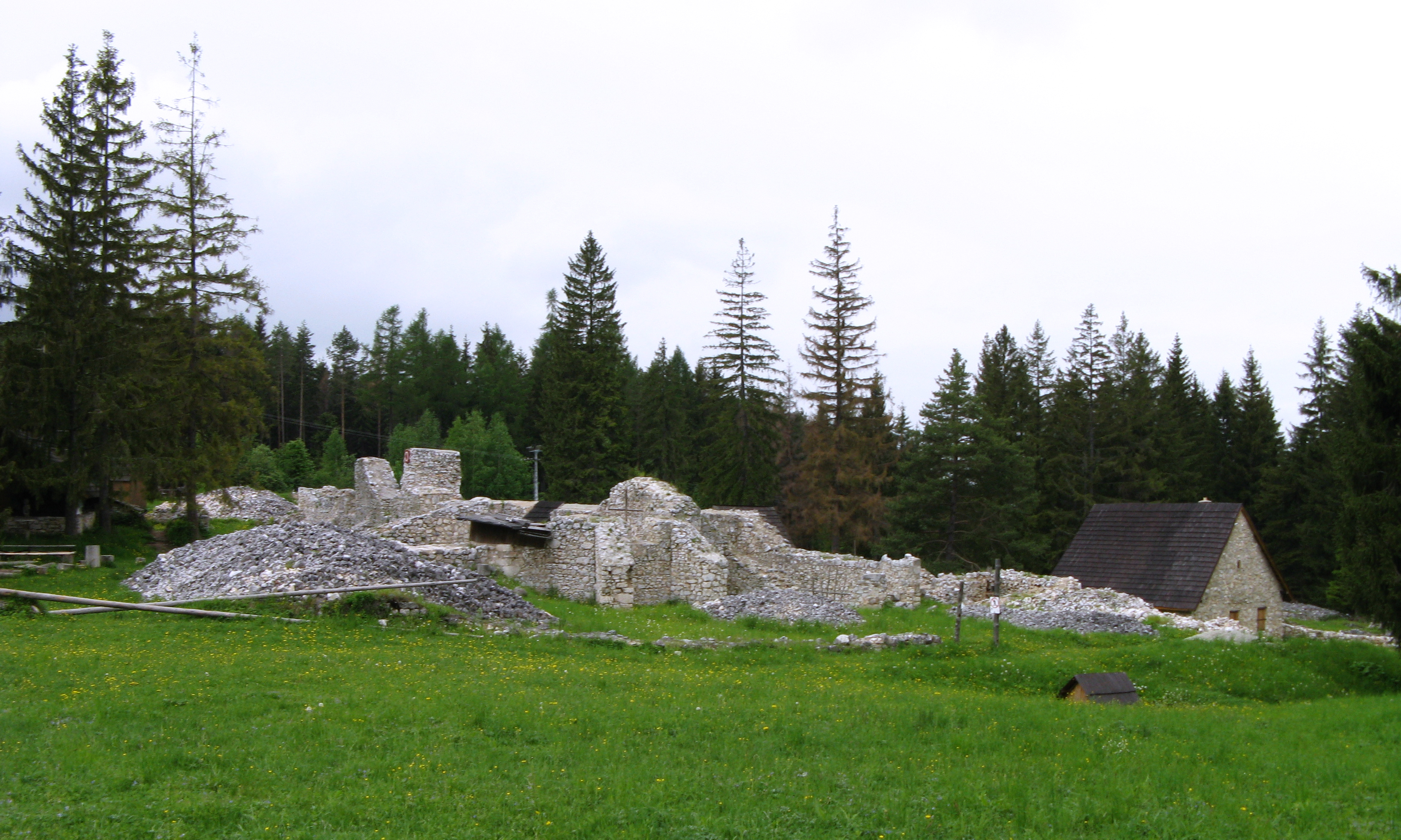 Ruins of the Carthusian monastery (XIII/XIV century) in Kláštorisko